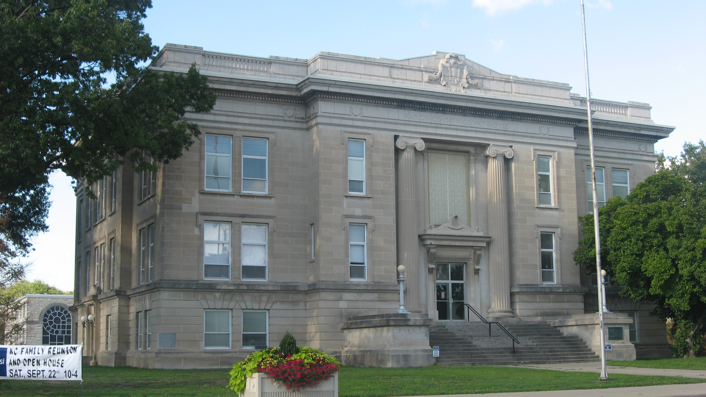 Front and western side of the Marion County Courthouse, located along U.S. Route 50 and Illinois Route 37 on Courthouse Square in Salem, Illinois, United States. It was built in 1910.